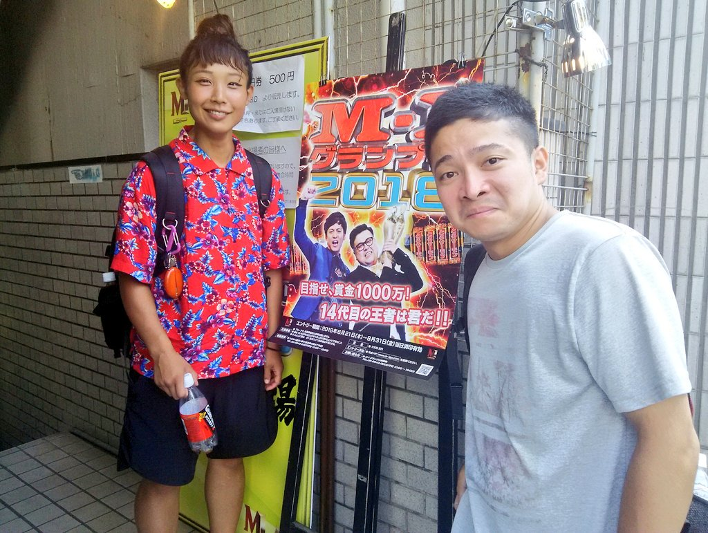 yumemanako